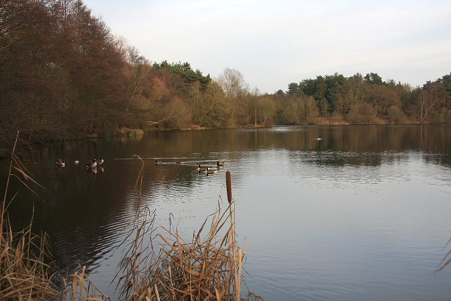 West Stow Lake Viewed from its western end.